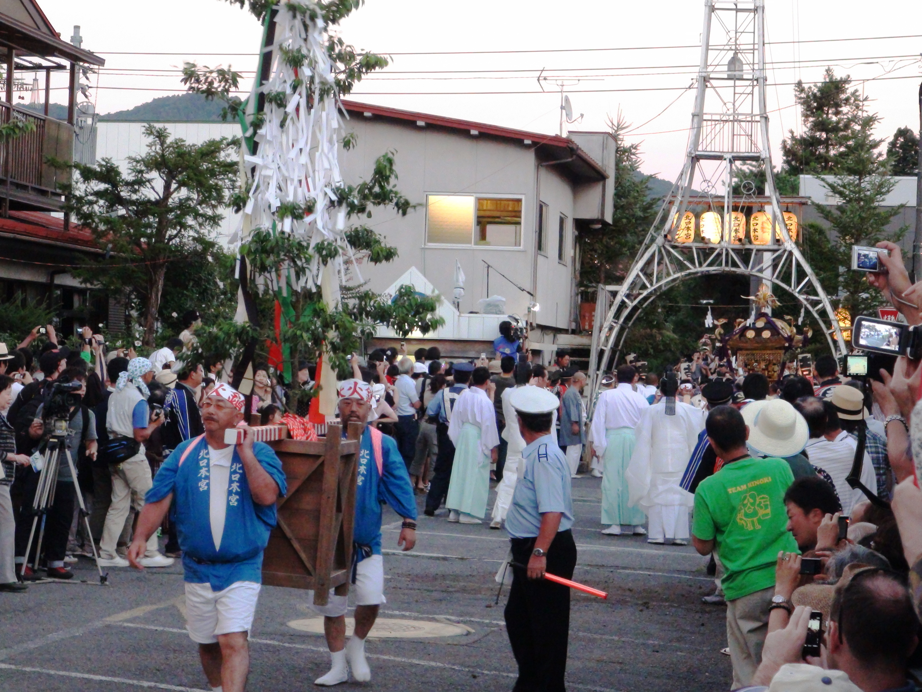 Arrived Otabisho Sacred Shinto tree, Yoshida Fire Festival